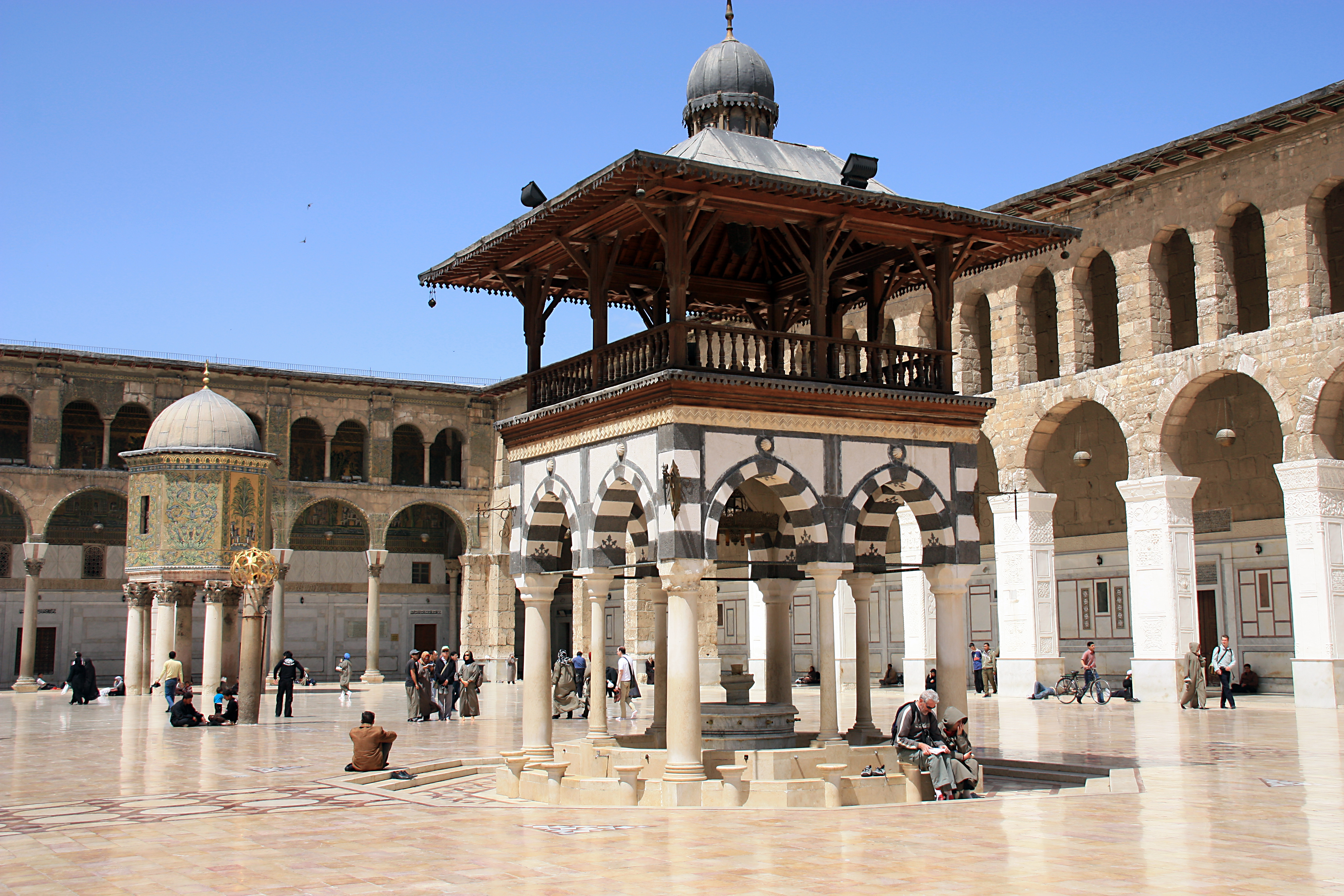 Şadirvan (ablution fountain) and pavilion. Umayyad Mosque, Damascus, Syria.